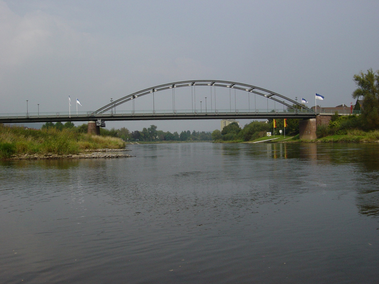 Weser Bridge Beverungen (Germany)